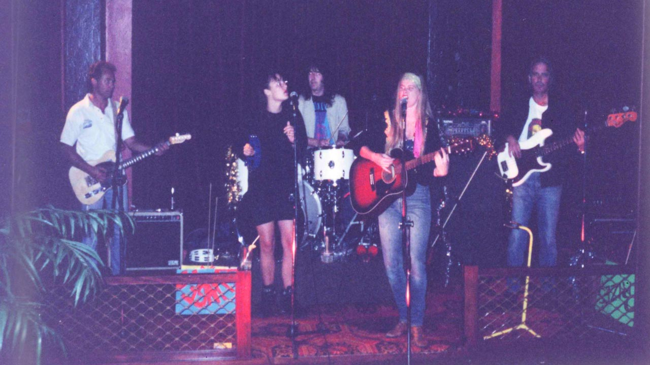 MikeKnapp03.jpg - photo taken and uploaded by Paul Moss, Photographer, Artist, Paul Moss Photographer Artist NZ